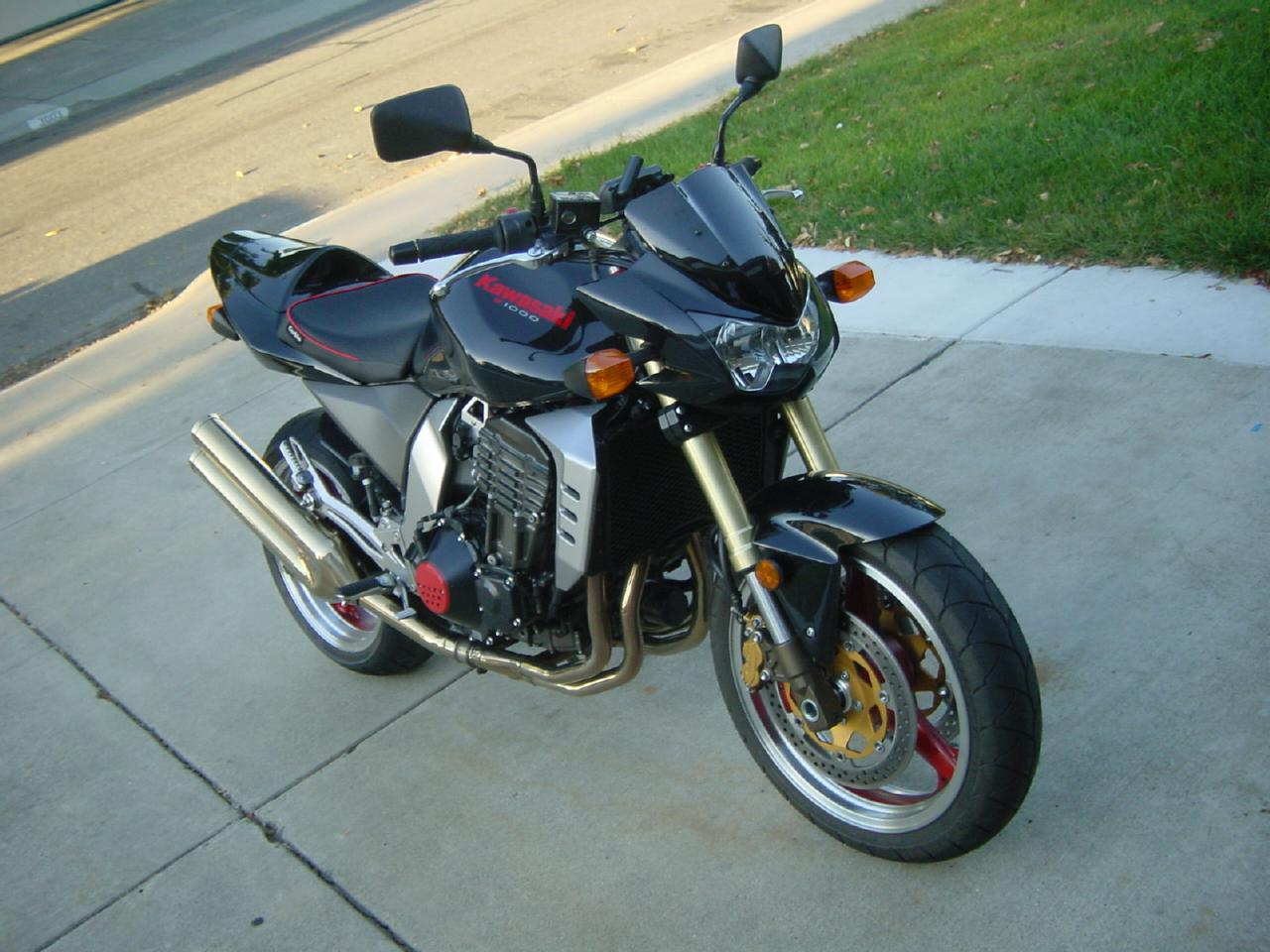 A 2003 Kawasaki Z1000. This bike has modified rear turn signals, Corbin seat and a GPS.